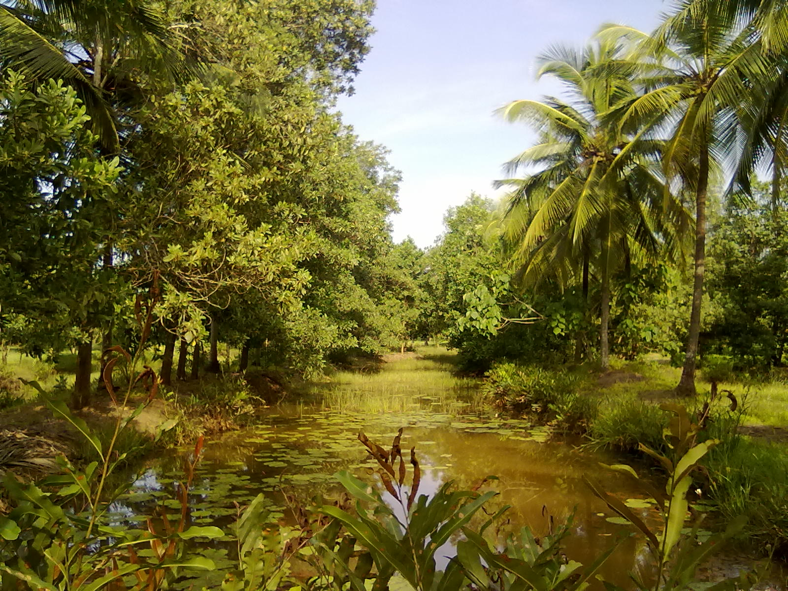 Tirur, Kerala